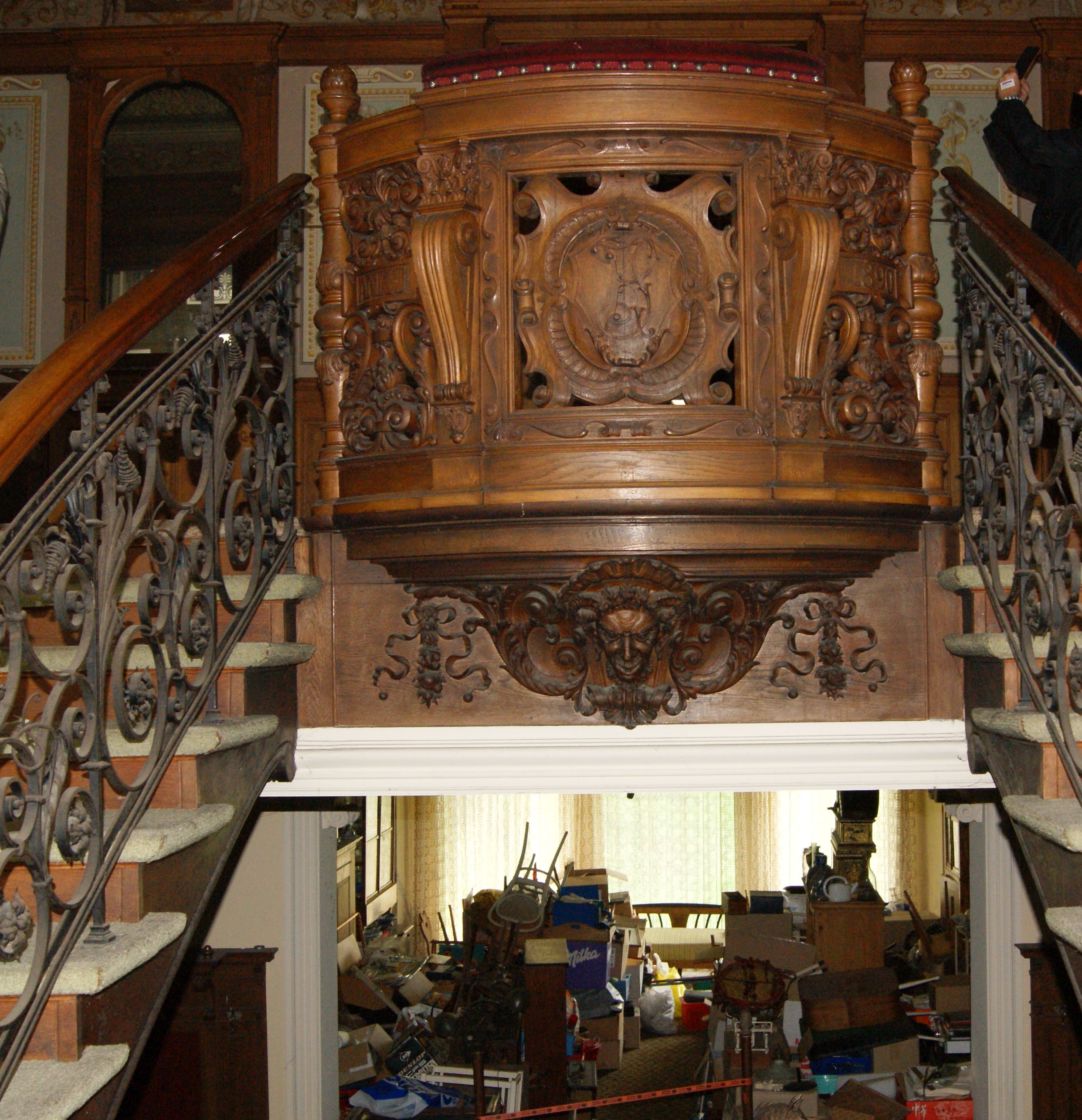 "Pulpit" in the stairwell in the Villa Ivan Rosenthal, Radetzkystraße No. 1 in Hohenems, Vorarlberg, Austria. Built in 1890, main building with hipped and cross-gabled roof, cube-shaped with klassizisierender entrance section, side wings, Wirtschaftstrakt with half-timbered.